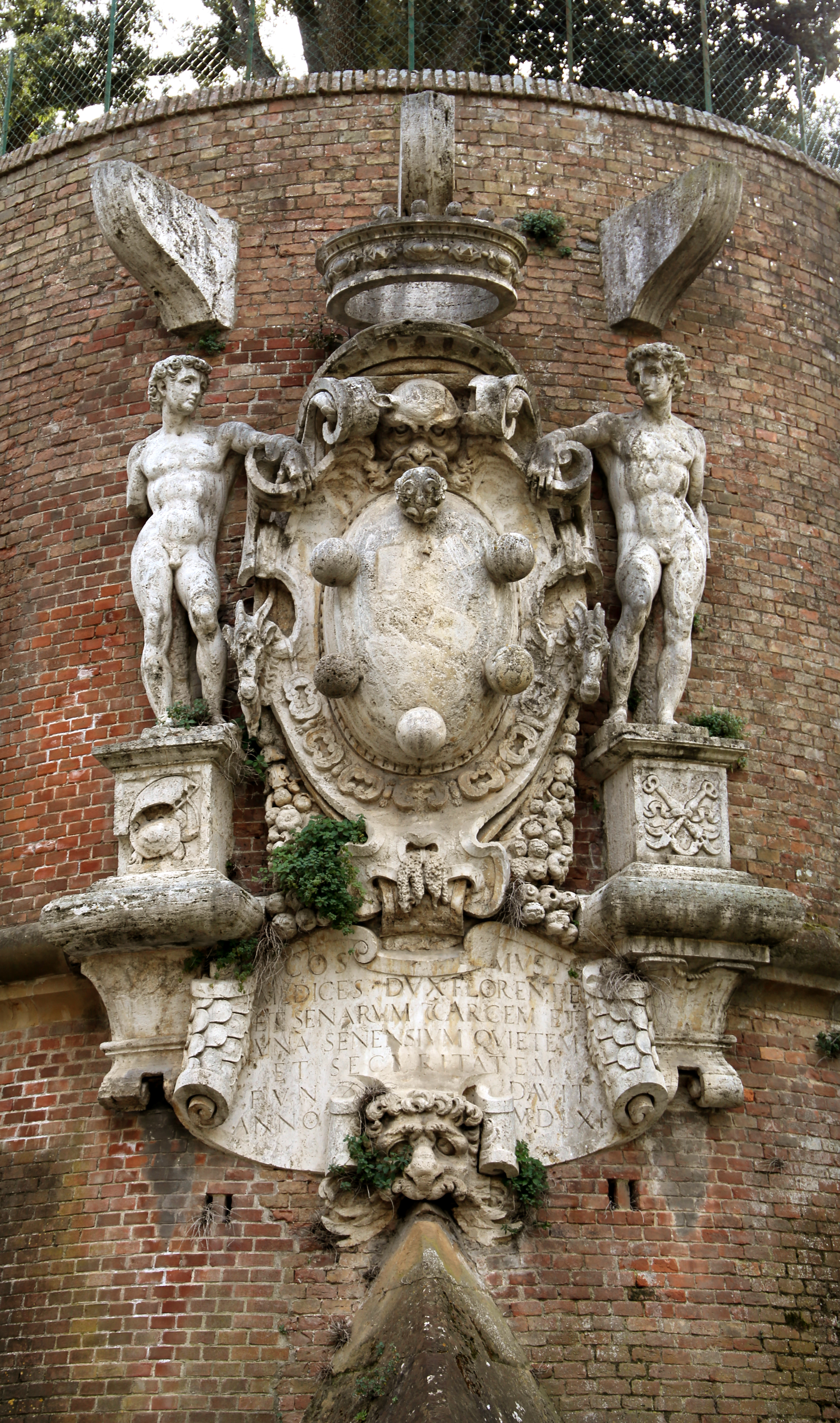 Fortezza Medicea (Siena)